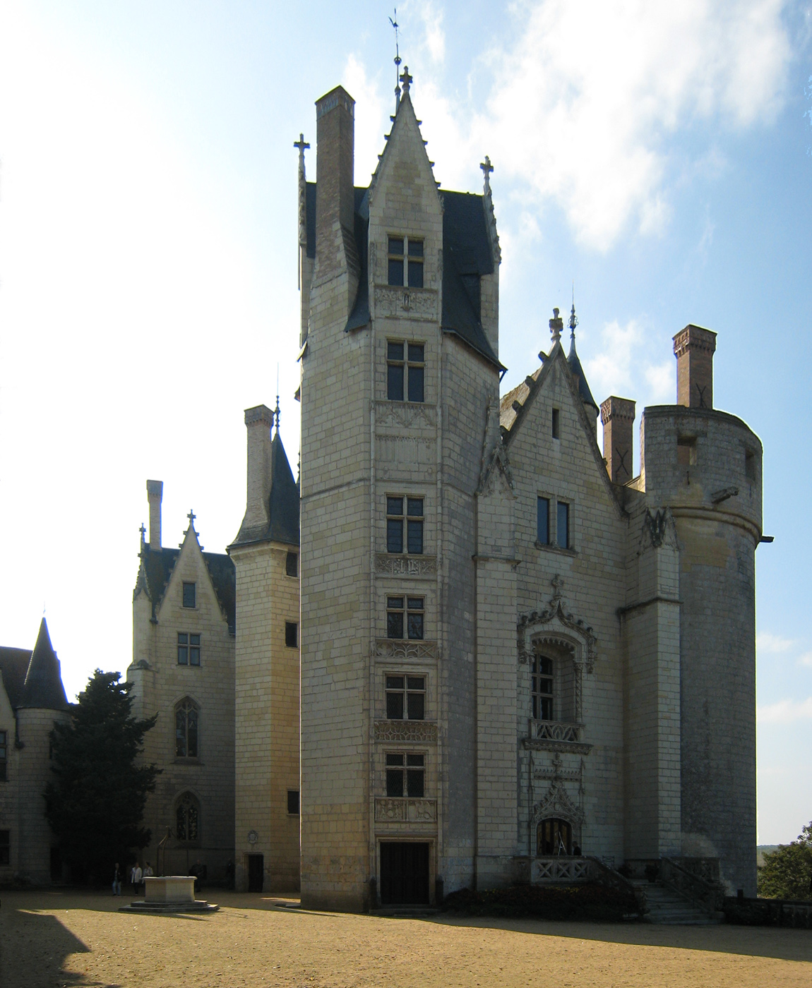 Castle Montreuil-Bellay, located in the village of Montreuil-Bellay in the county of Maine-et-Loire/France